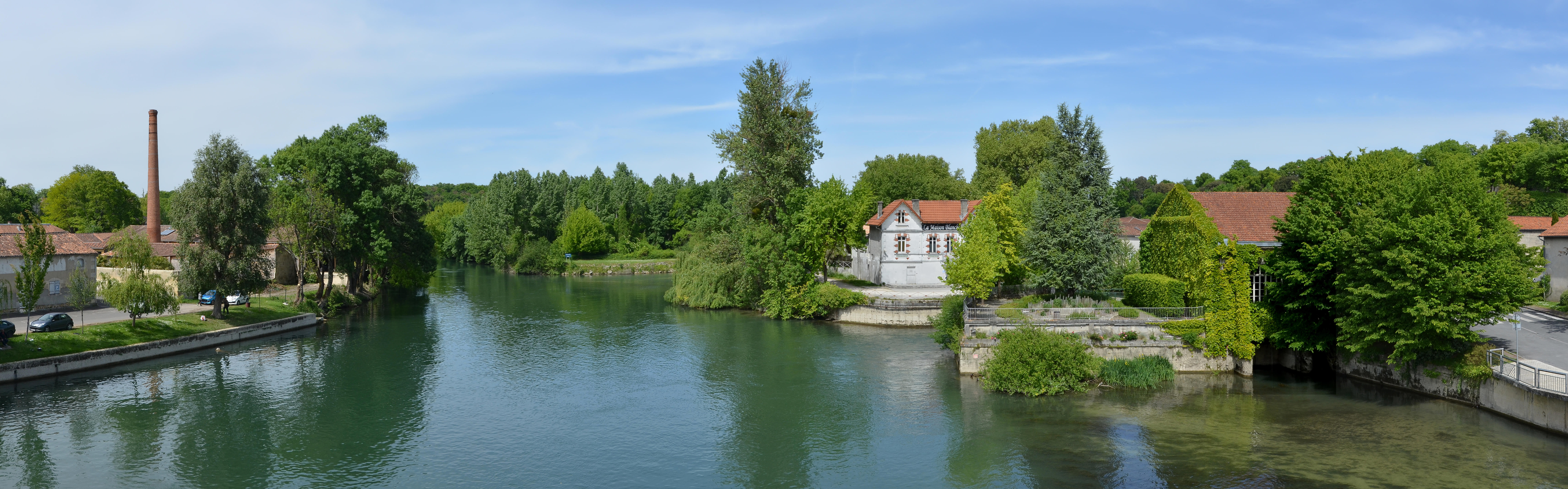 View of the river Charente from the Pont-Neuf, looking NNE, Cognac, Charente, France.